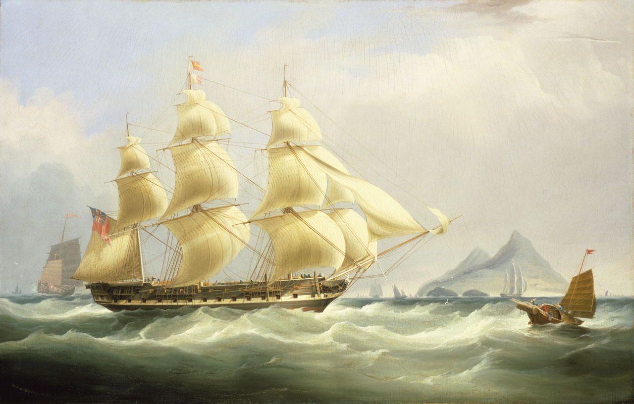 The ship was built in 1811 and is shown off Hong Kong between 1831 and 1832, towards the end of her career. The artist has depicted her in starboard broadside, flying the red ensign and distinguishing flags. Chinese junks have been shown to left and right of her, with more European shipping in the right distance depicted in front of an island. The subject of Indiamen in the East was a familiar one to Huggins who had probably begun his working life at sea and served in the East India Company as a steward and assistant purser on board the 'Perseverance', which sailed for Bombay and China in December 1812, returning in August 1814.[1] ↑ NMM